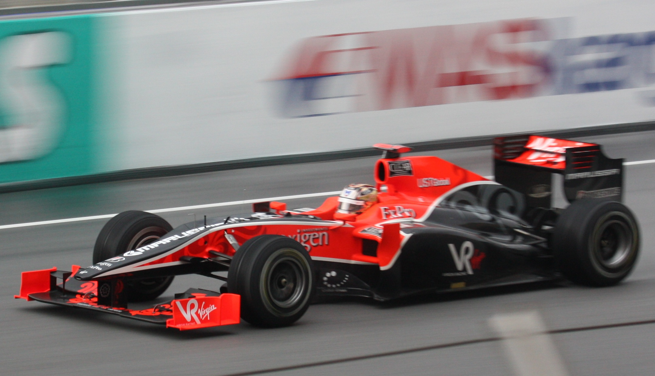 Glock Malaysia